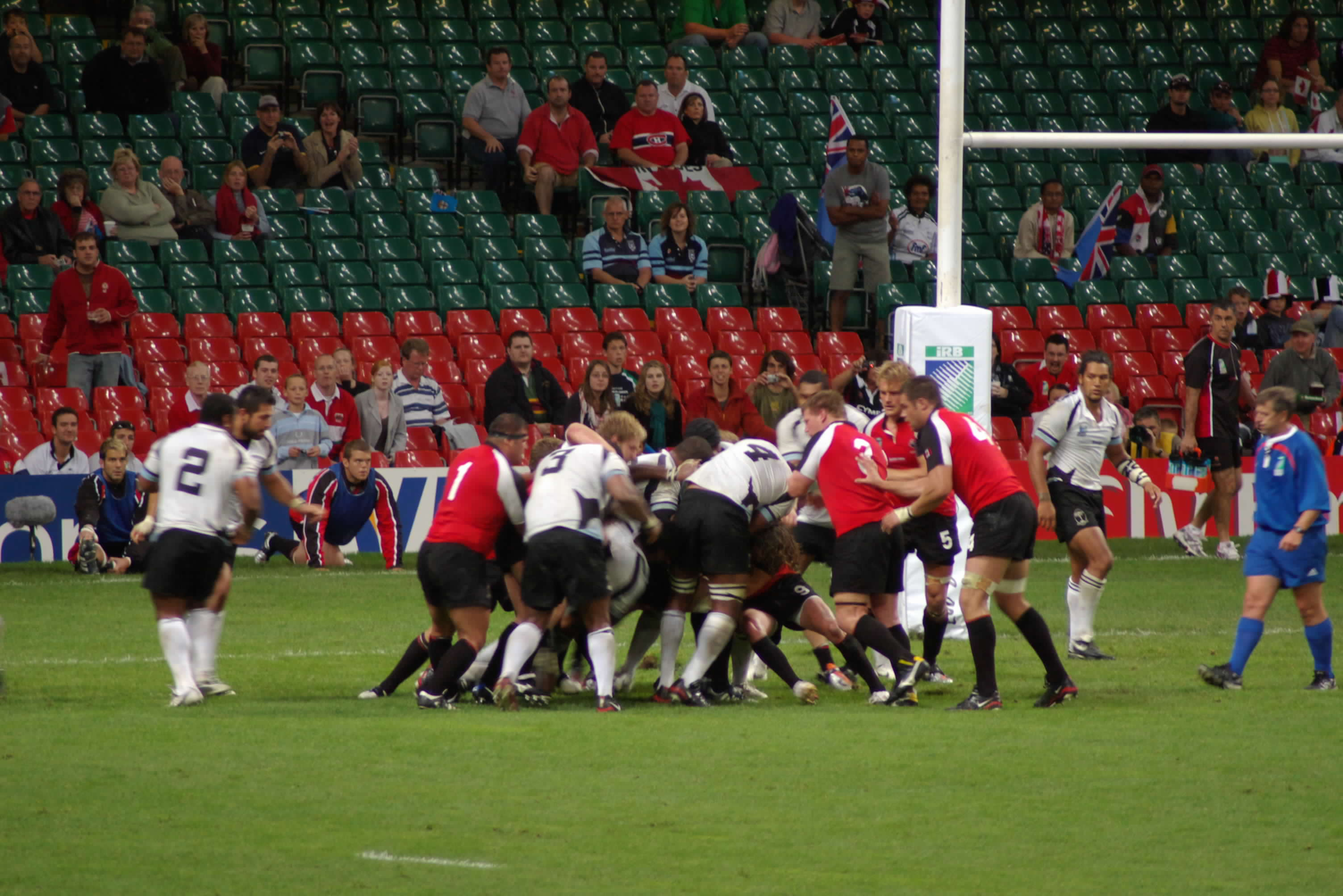 Canada attempt to push over the Fijian line late in their Rugby World Cup game - they didn't make it. Canada 16 - 29 Fiji